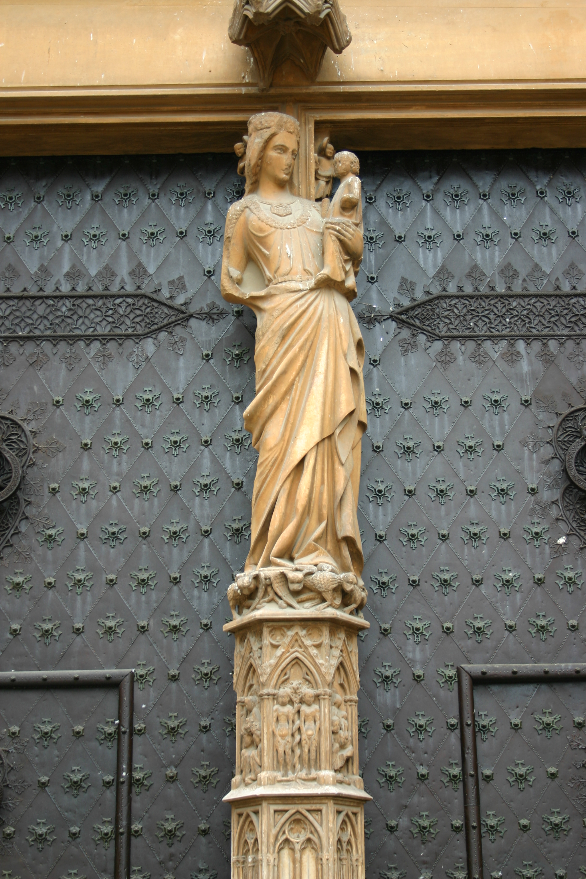 Cathedral of Tarragona, Catalonia (Spain).